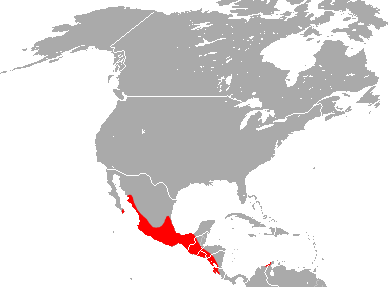 Gray Sac-Winged Bat (Balantiopteryx plicata) range, with colonial borders added